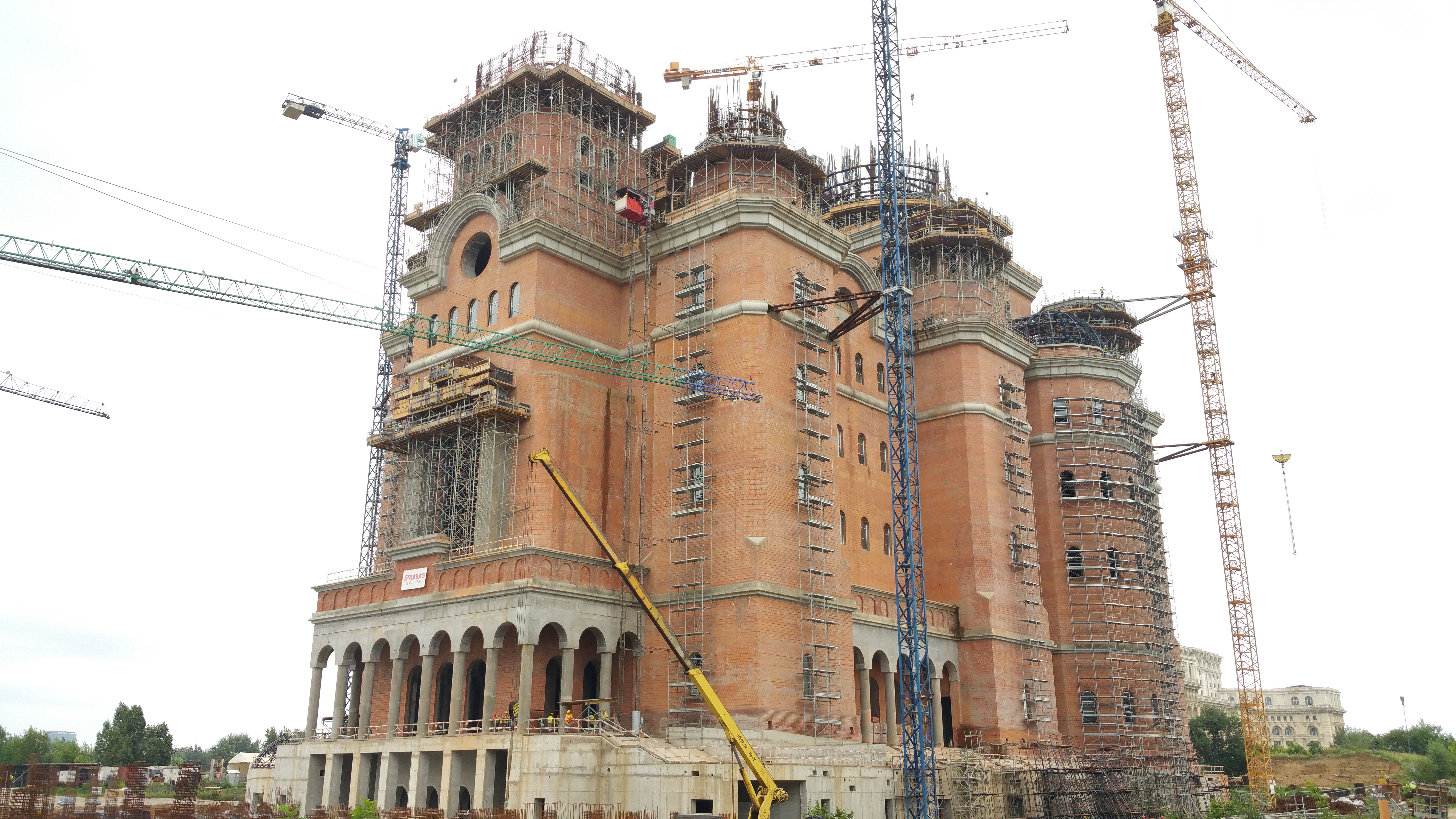 People's Salvation Cathedral, Bucharest (2018 August)